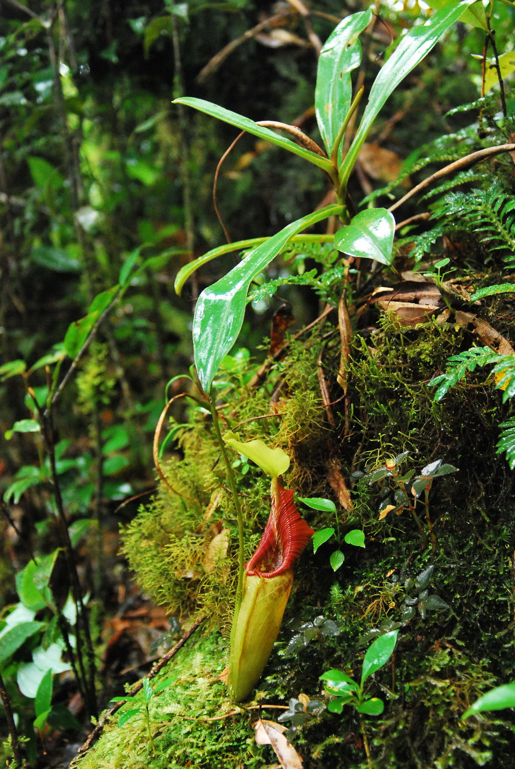 Nepenthes ovata, North Sumatra